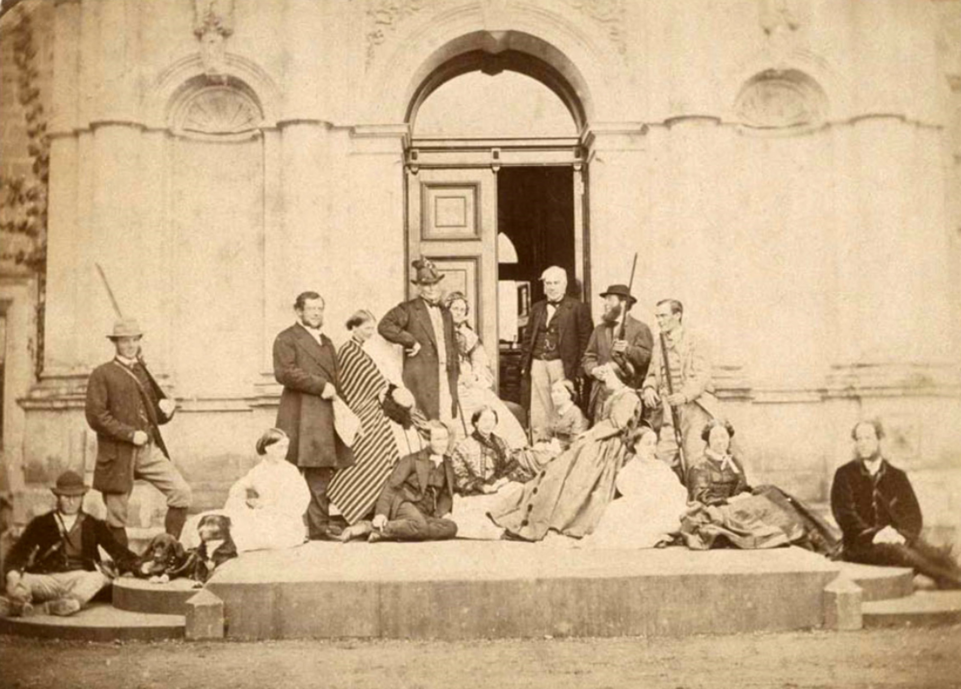 The Duckworth family at the front entrance of Orchardleigh, Somerset in 1867